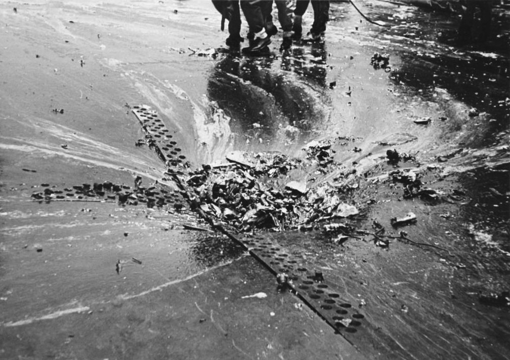 Armoured flight deck of HMS Formidable (67) dented by a kamikaze attack off Sakishima Gunto in the Battle of Okinawa.